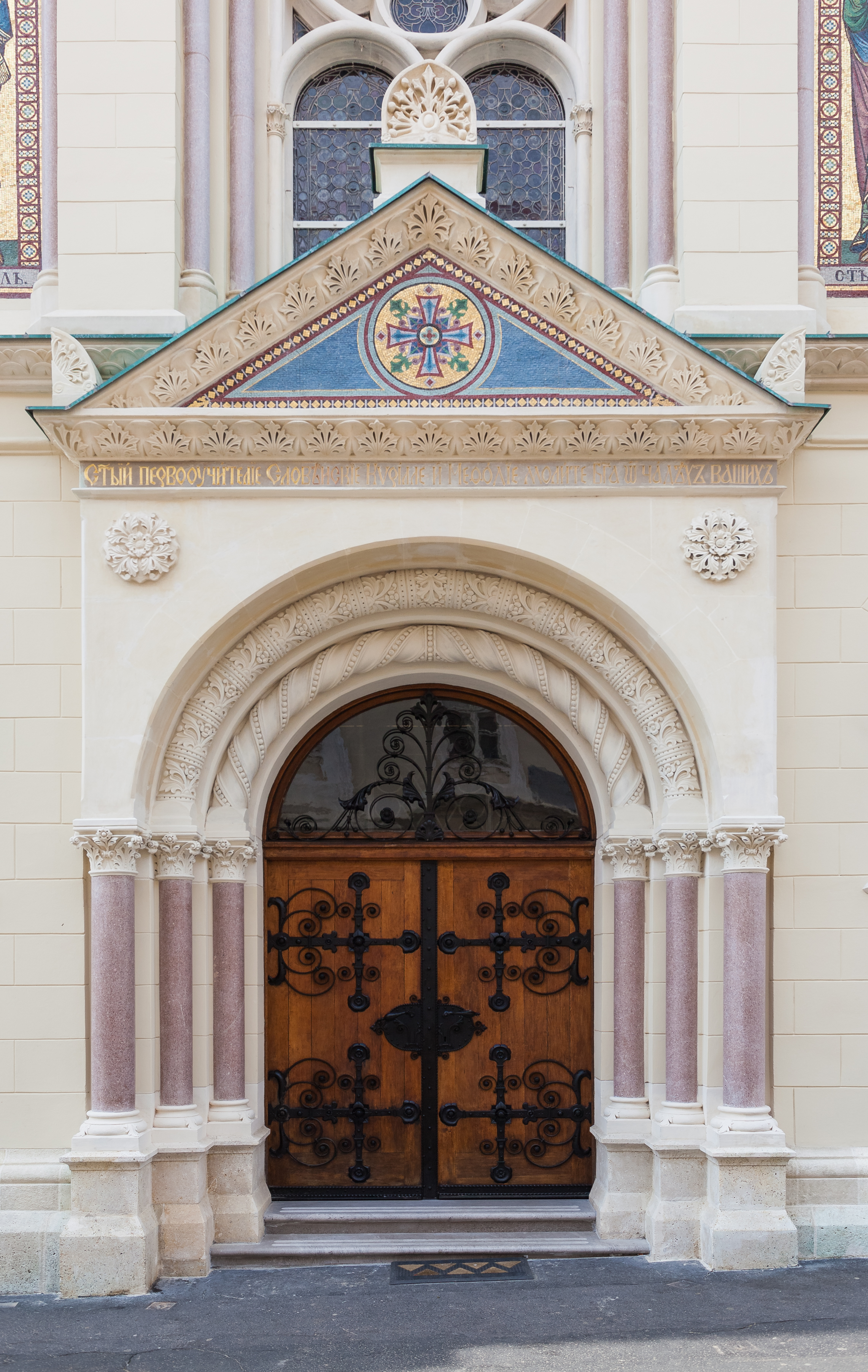 Church of St. Cyril and St. Methodius, Zagreb, Croatia